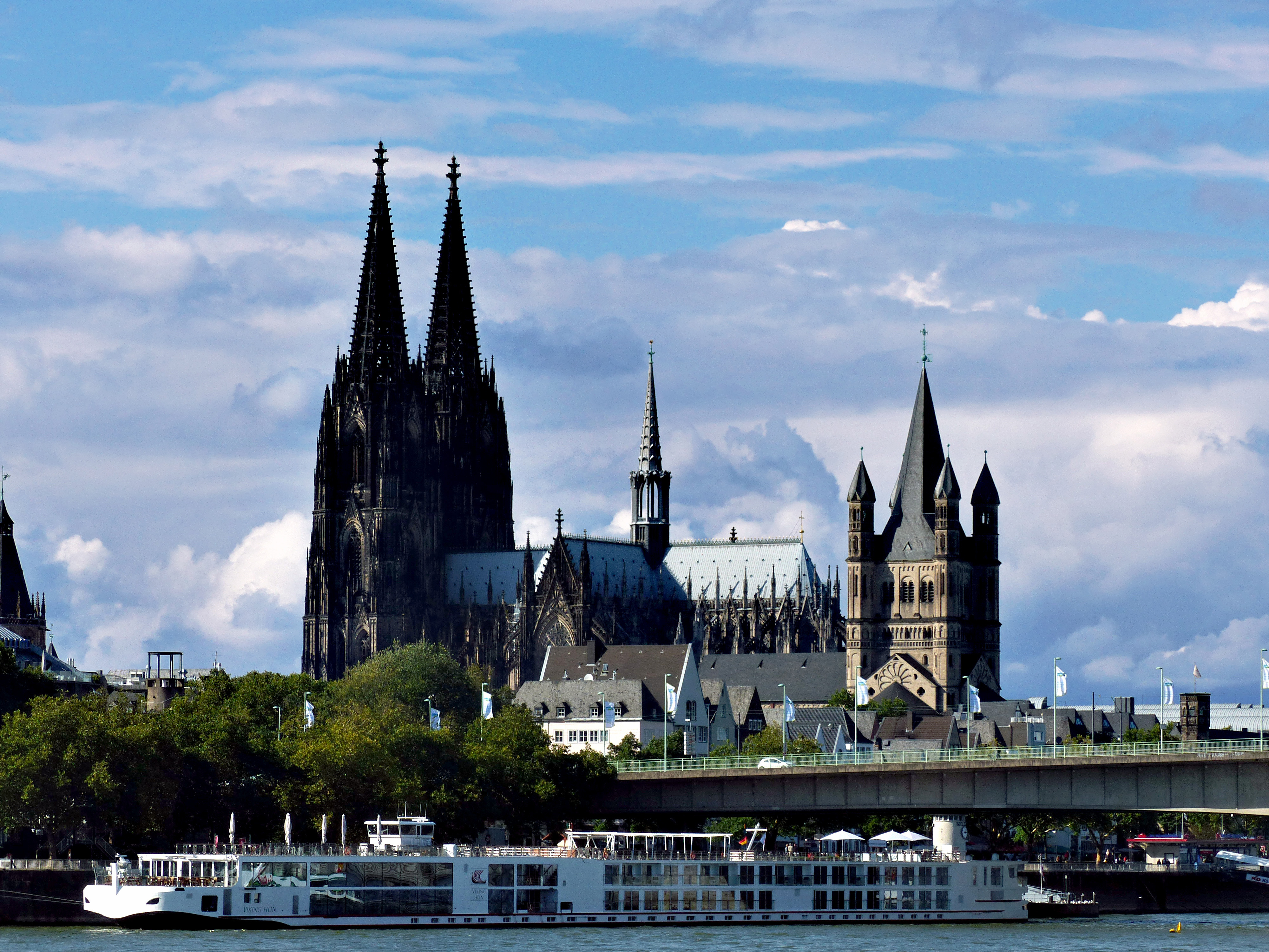 This is a photograph of an architectural monument.